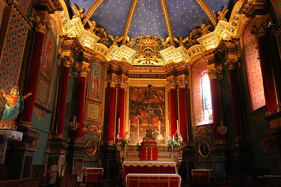 The interior of the cathedral at Entrevaux, Department of Alpes-de-Haute-Provence, France; altar piece (retable) & altar (autel).